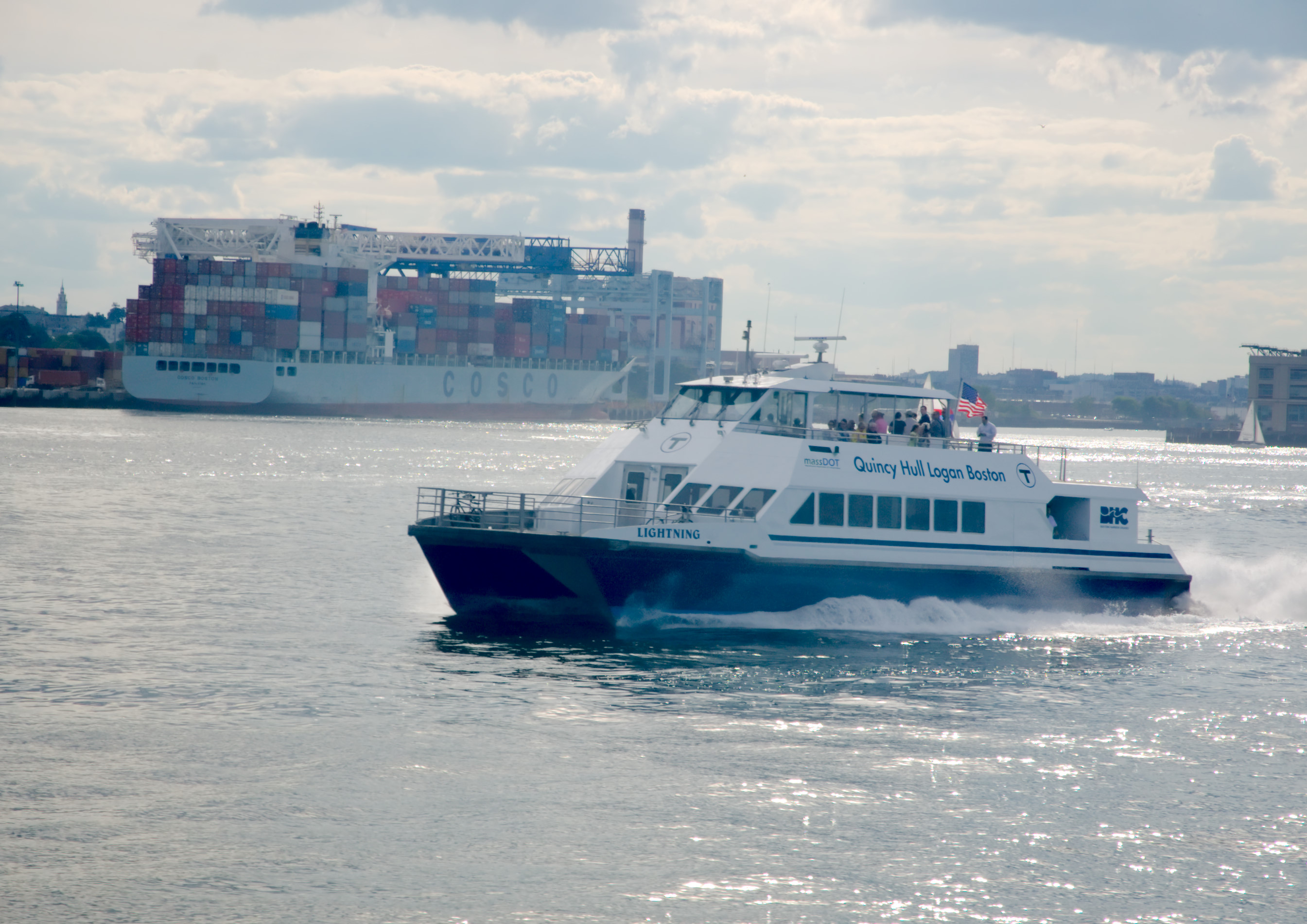 MBTA Commuter Ferry "Lightning" operated by Boston Harbor Cruises